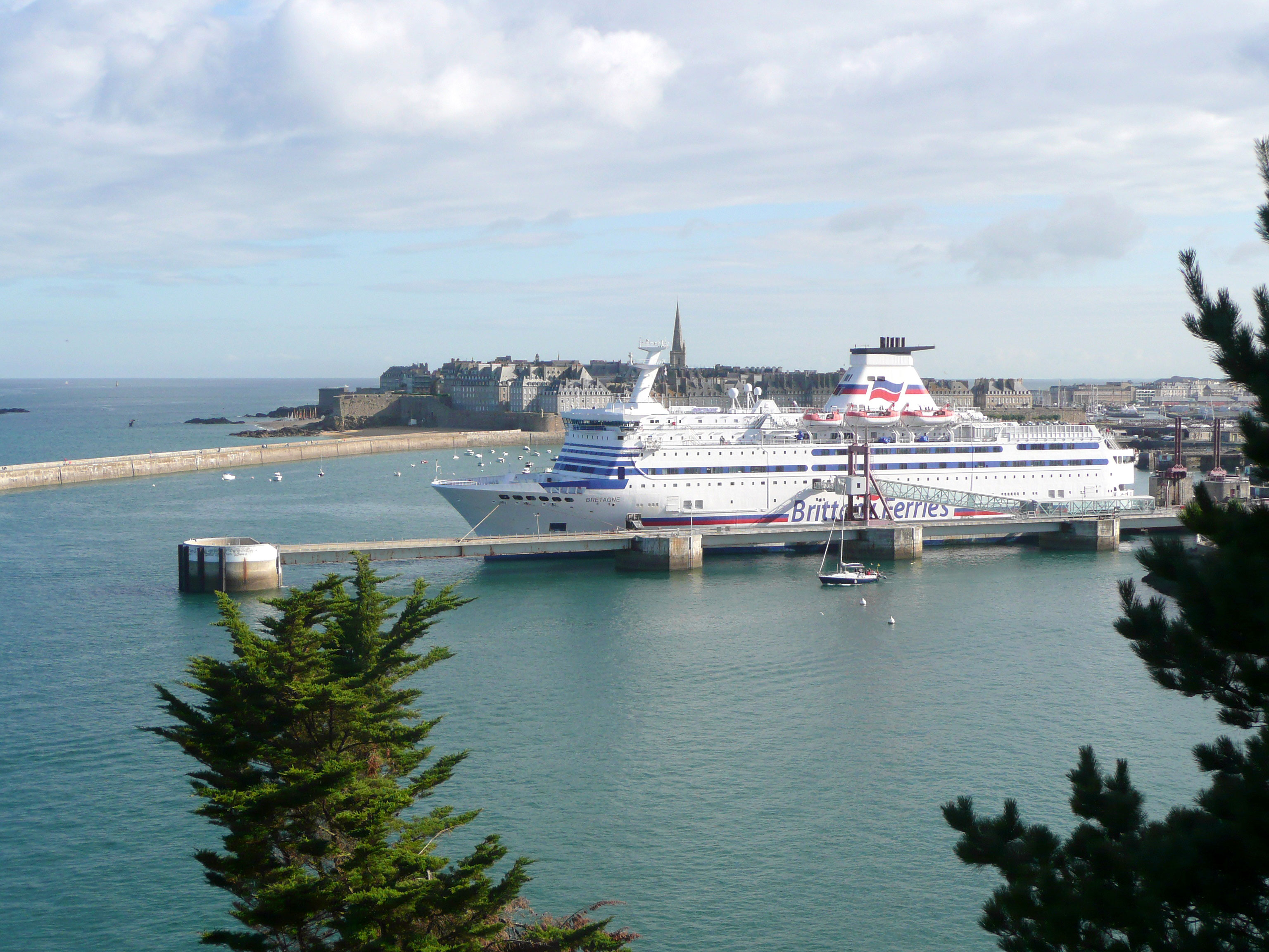 Harbour of Saint-Malo (Brittany, France)